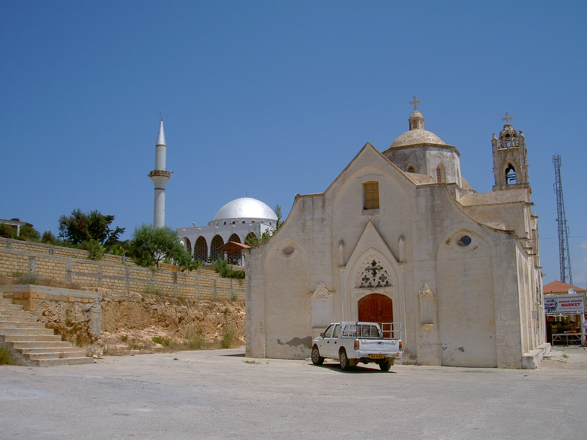 Orthodox church and mosque in Dipkarpaz (Rizokarpaso) in northeastern Cyprus